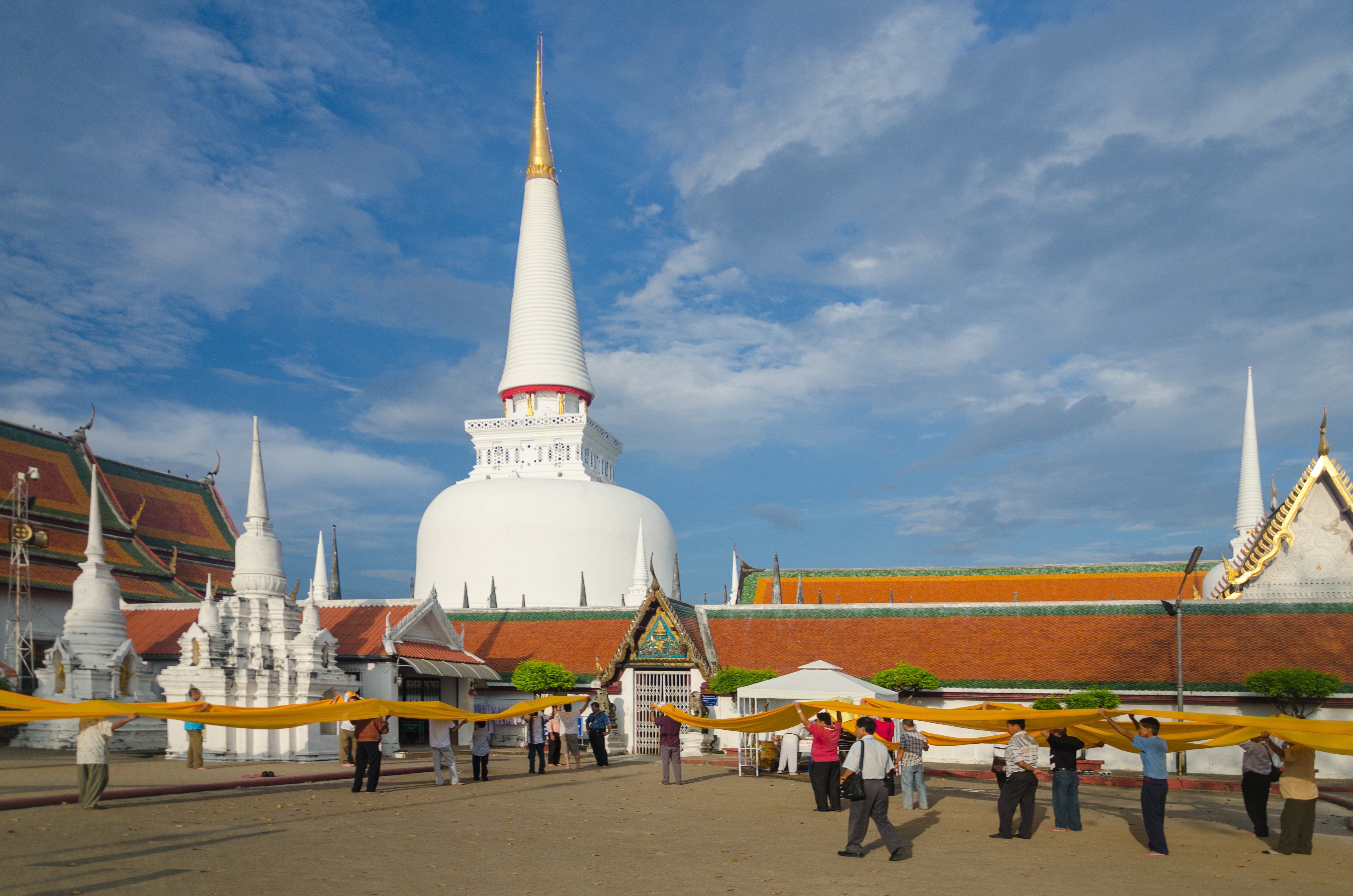 Wat Phra Maha That Woramaha Wihan, Mueang Nakhon Si Thammarat District, Nakhon Si Thammarat Province